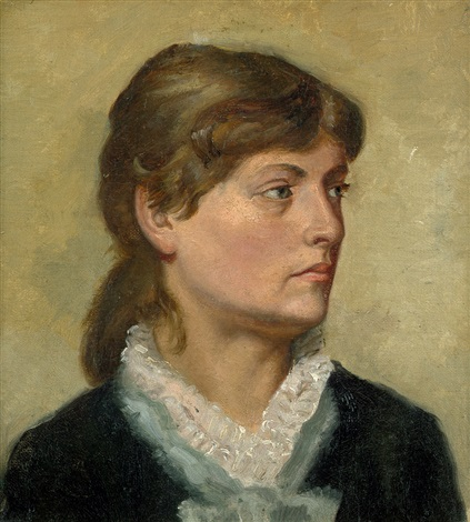 Portrait of the Danish artist Sophie Holten (1858-1930) by Otto Bache, oil on canvas, 18.5 x 17 cm. (7.3 x 6.7 in.)